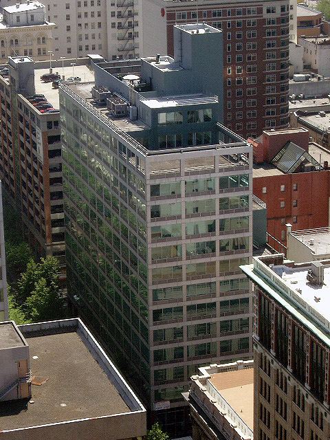 The Commonwealth Building (formerly the Equitable Building) in Portland, Oregon. Taken by myself, Ajbenj, from the US Bancorp Tower. Architect, Pietro Belluschi.